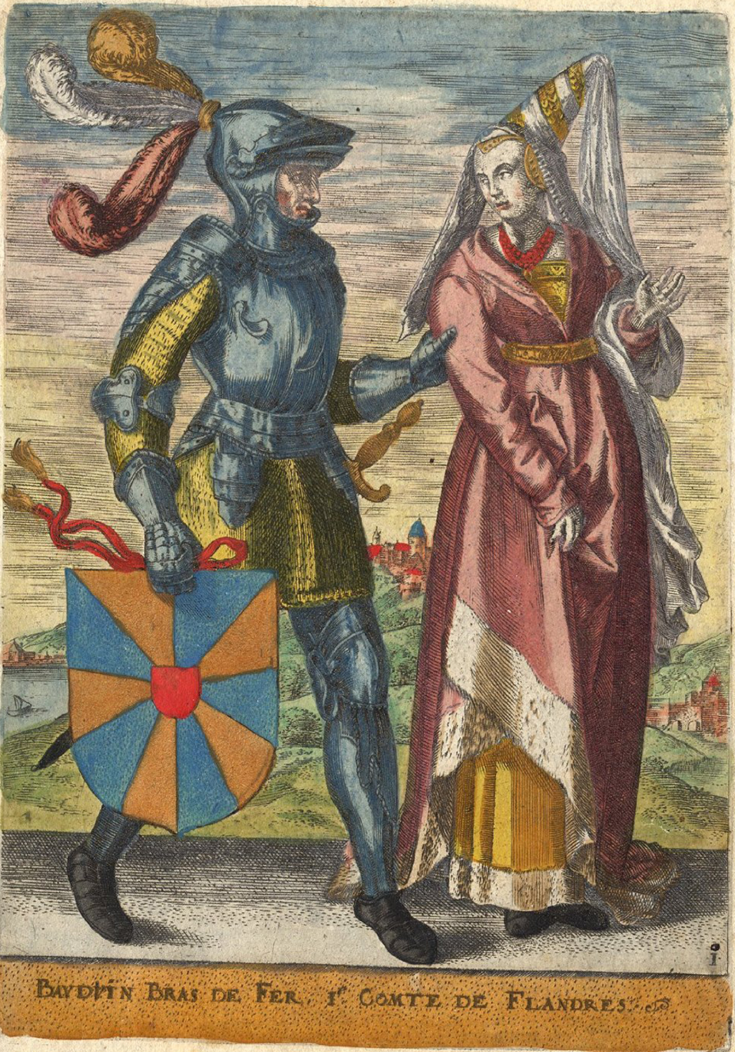 Baldwin I of Flanders and his wife Judith of France